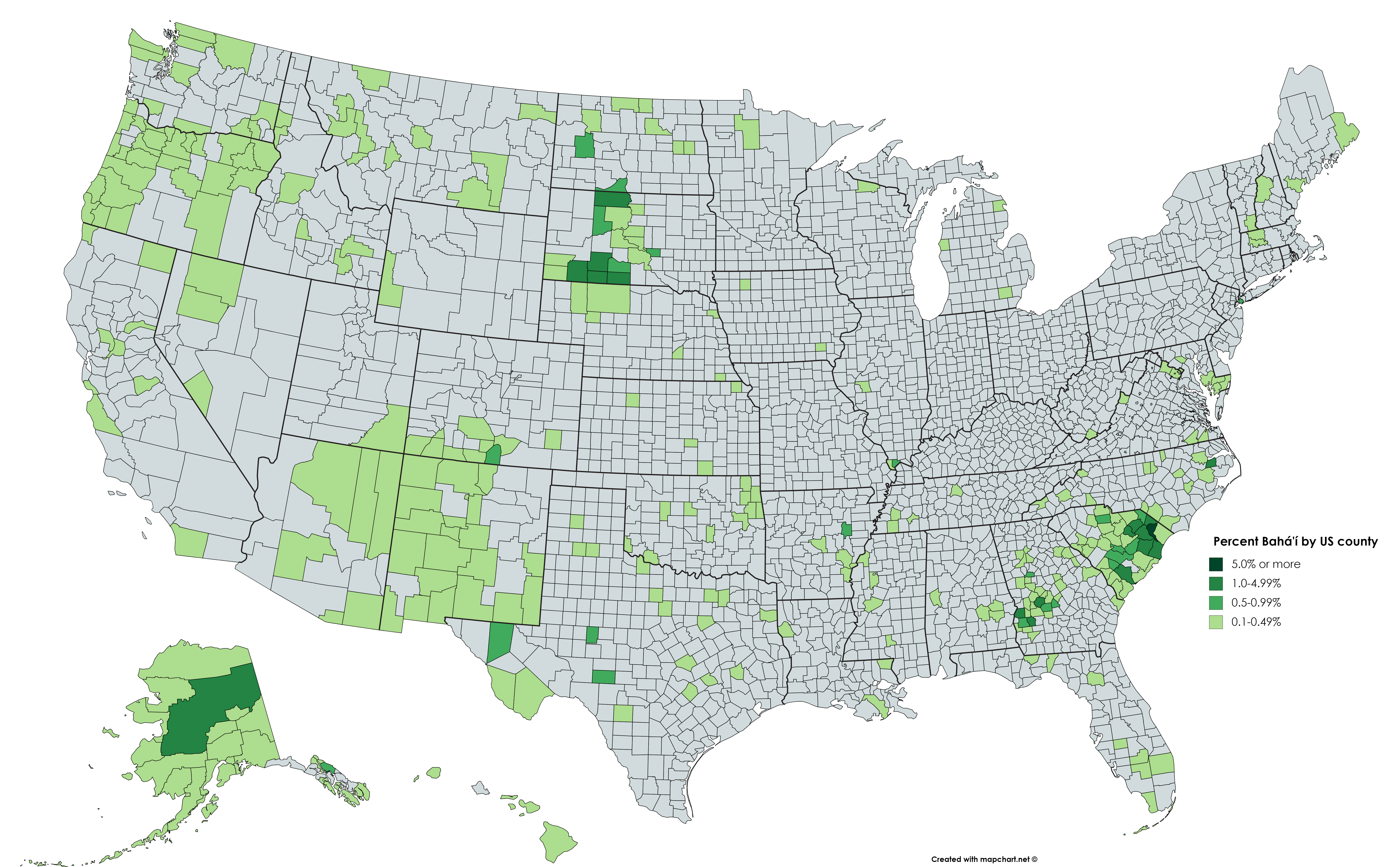 Map of US counties depicting the percent of the population that adheres to the Bahá'í faith.